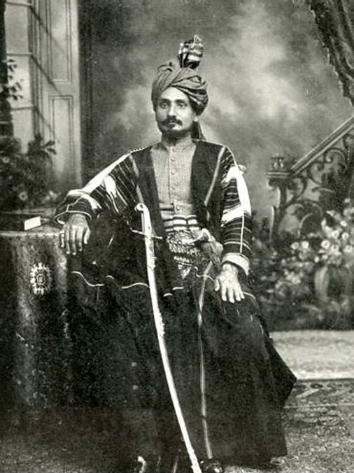 Sultan Abdulkarim Fadl of Lahj in Yemen in 1922